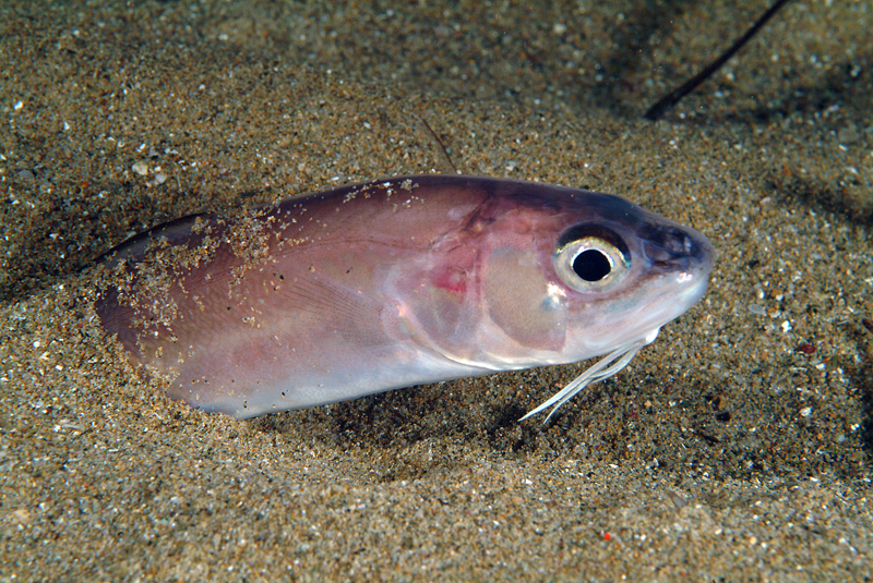 Ophidion barbatum photographed near Tuscany coast (central Italy). Photo by Stefano Guerrieri.